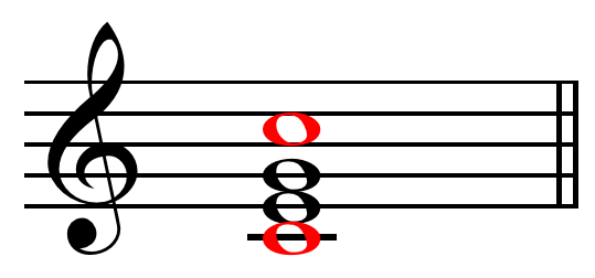 Root, in red, of a C major chord.